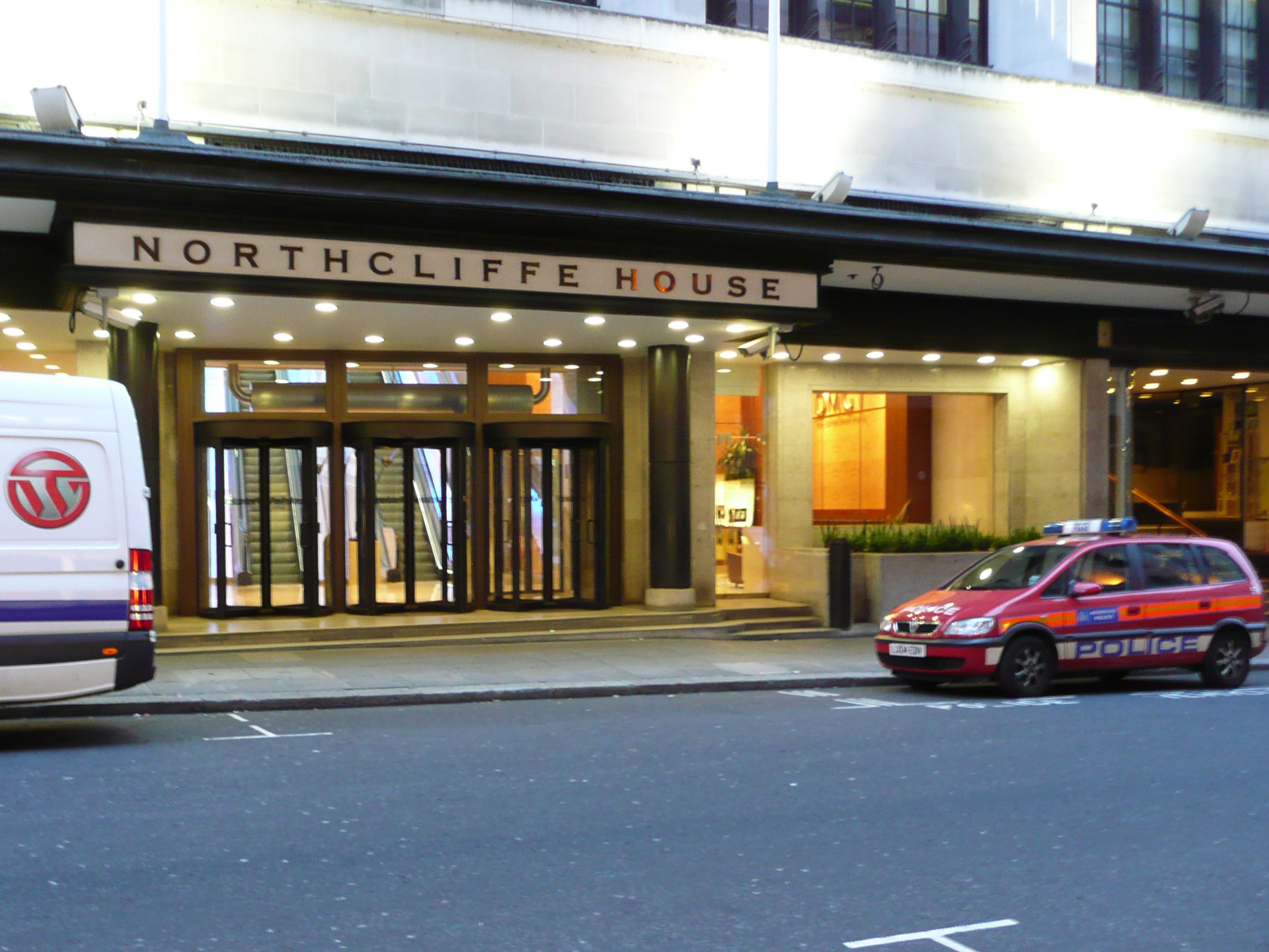 Northcliffe House, Daily Mail and General Trust building.